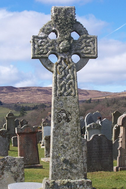 Old Celtic Cross in Kilbrannan Chapel Graveyard, Skipness